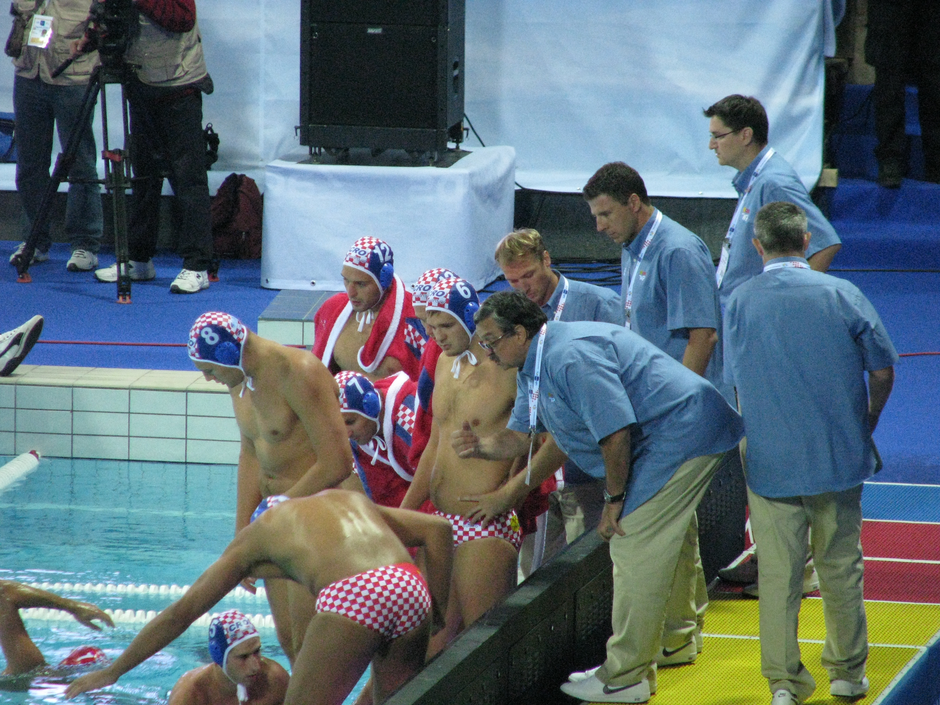 Croatia men's national water polo team on 2010 Men's European Water Polo Championship in Zagreb